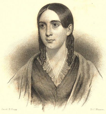 Portrait of Mary E. Van Lennep, from an 1850 publication.